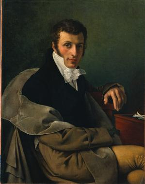 Joseph Paelinck (1781-1839) Self Portrait